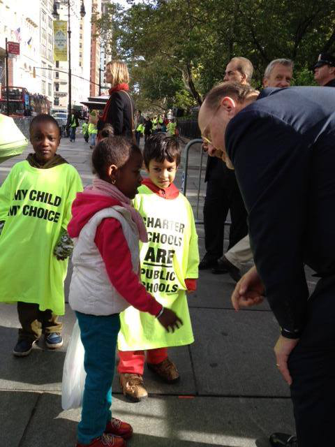 Oct. 9, 2013. Lhota preparing to march at Pro-School Choice rally across the Brooklyn Bridge along with over 17,000 parents from low-income neighborhoods who have children in publicly co-located charter schools.